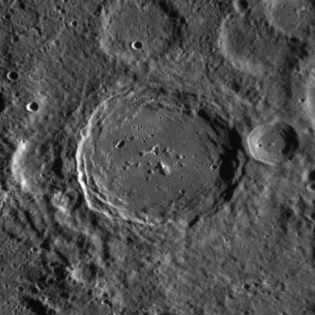 Gainsborough crater, on Mercury. MESSENGER Wide Angle Camera mosaic. Image is approximately 204 km wide.